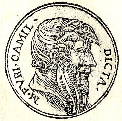 Marcus Furius Camillus was a Roman soldier and statesman of patrician descent.